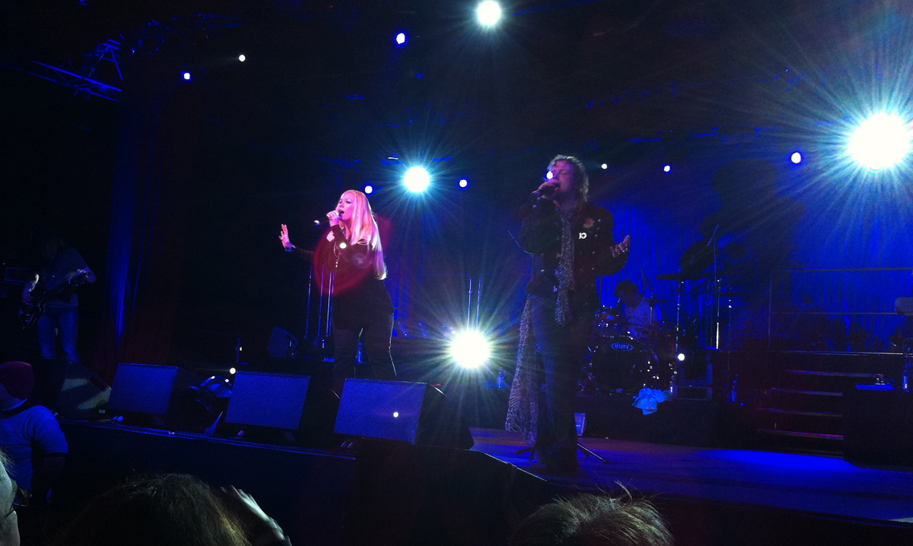 Avantasia in Kaufbeuren, Germany. Dec. 04 2010. Amanda Sommerville and Tobias Sammet